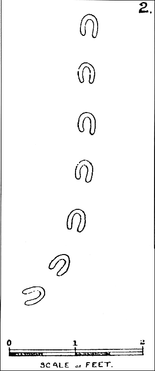 English papers prints in 1855